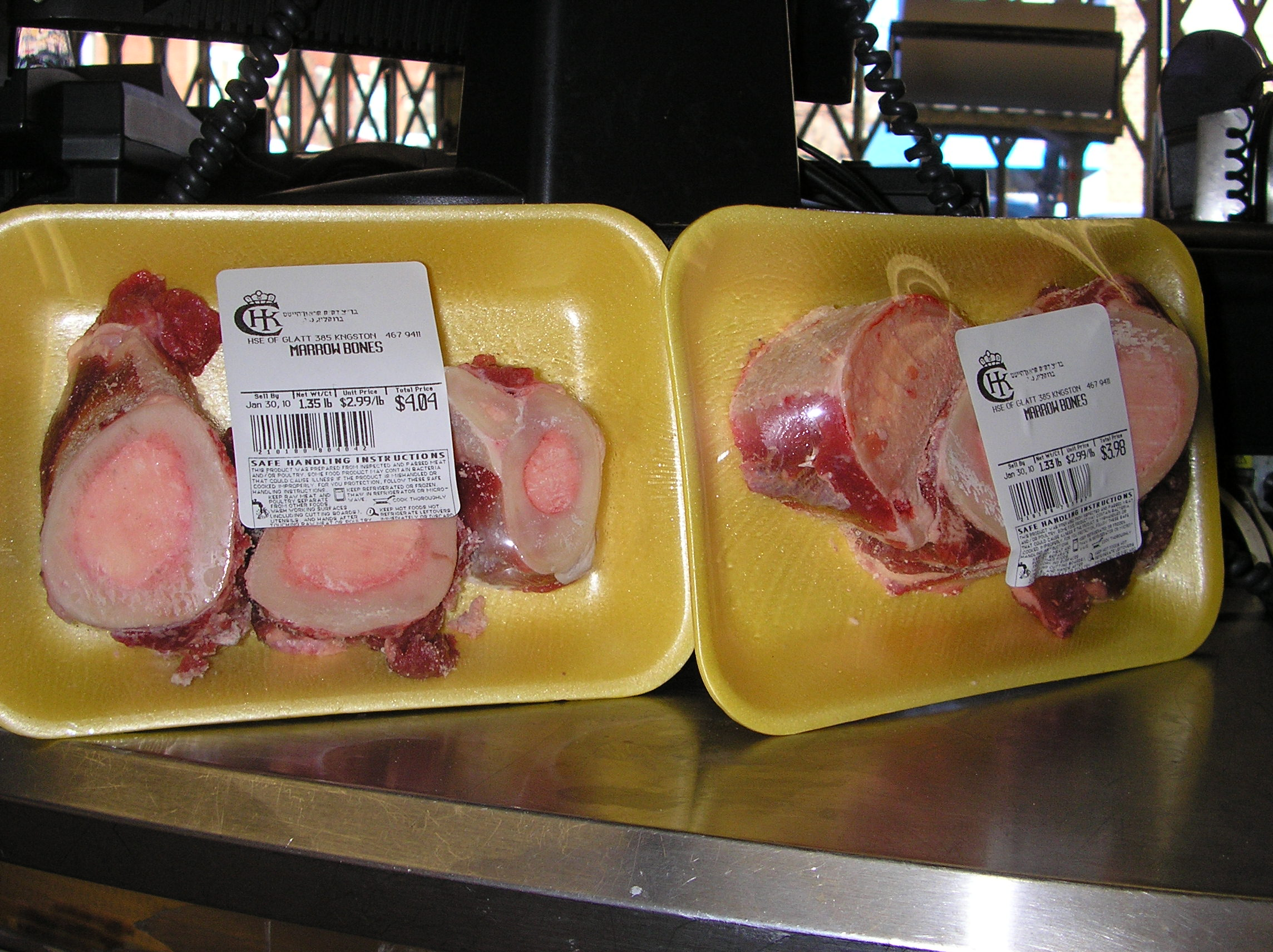 marrow bone part of kosher slaughtered livestock